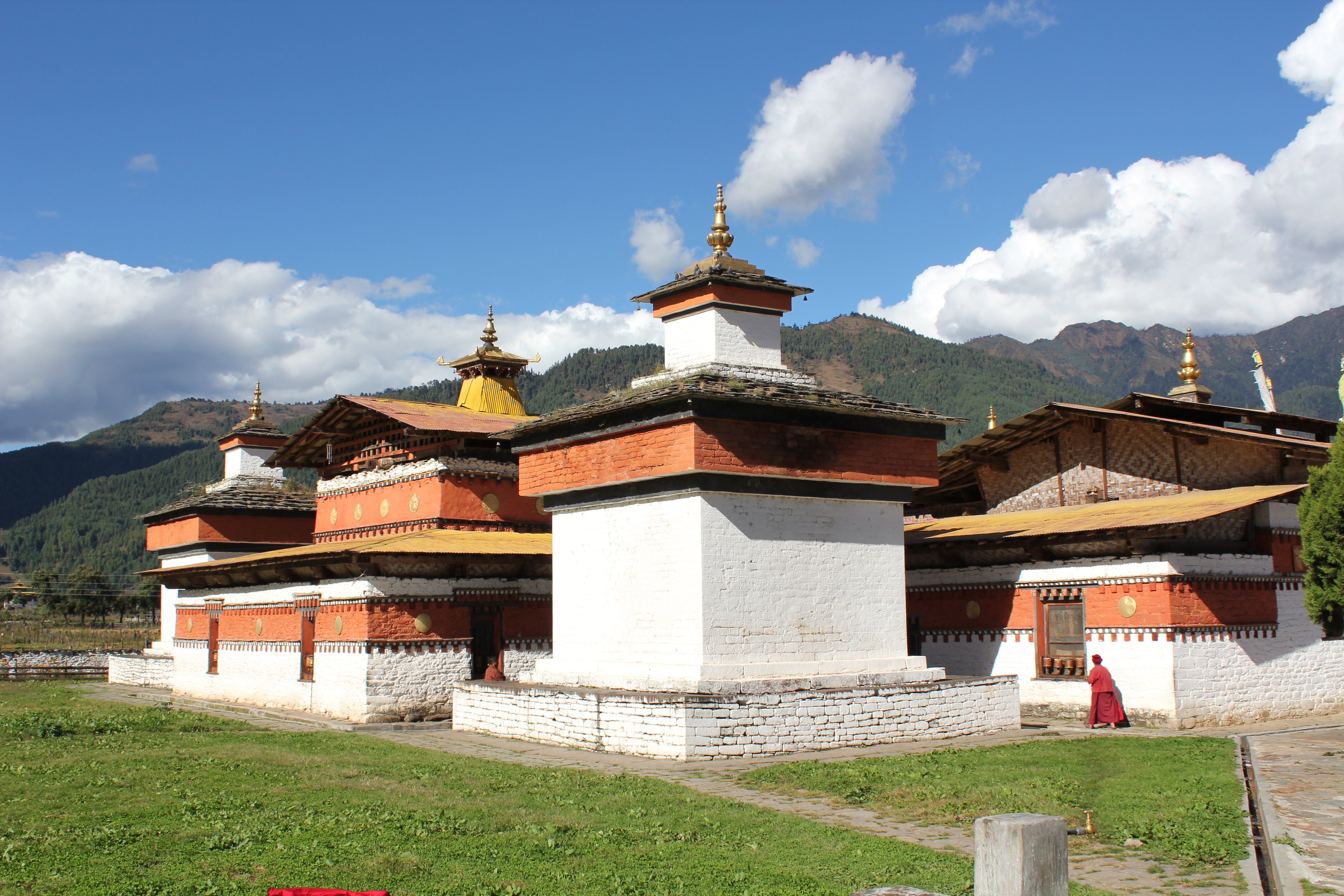 Around Jakar, Jambay Lhakhang Jambay Lhakhang is one of the oldest temples in the kingdom. It was founded by Songtsen Gampo, a Tibetan King in 659 AD. The king was destined to build 108 temples known as Thadhul-Yangdhul (temples on and across the border) in a day to subdue the demoness that was residing in the Himalayas. The temple is one of the two of the 108 built in Bhutan. A second is located in Paro, the Kichu lhakhang also built on the same day. The main relics include the future Buddha, Jowo Jampa (Maitreya) from whose name the present name of the temple is derived. (source: Bhutan